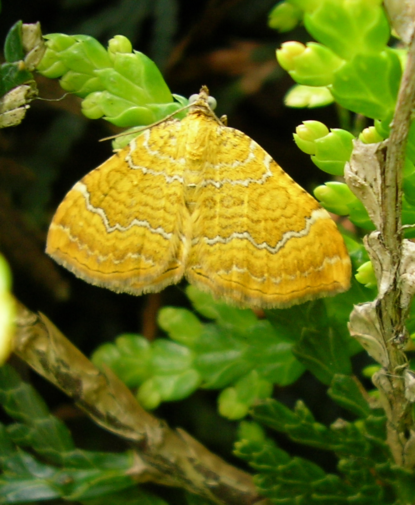 Camptogramma_bilineata